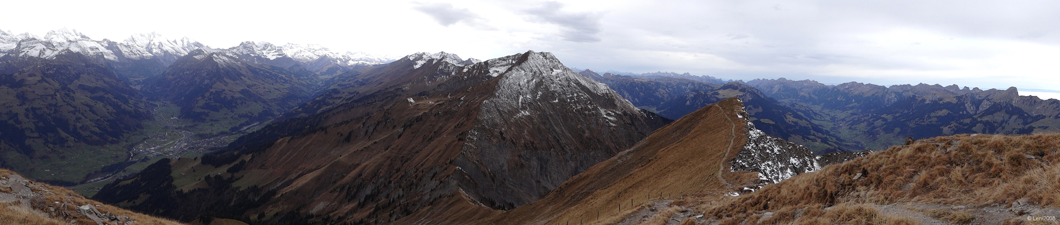 Niesen_View of the alpine valleys Kandertal, Engstligental and Simmental